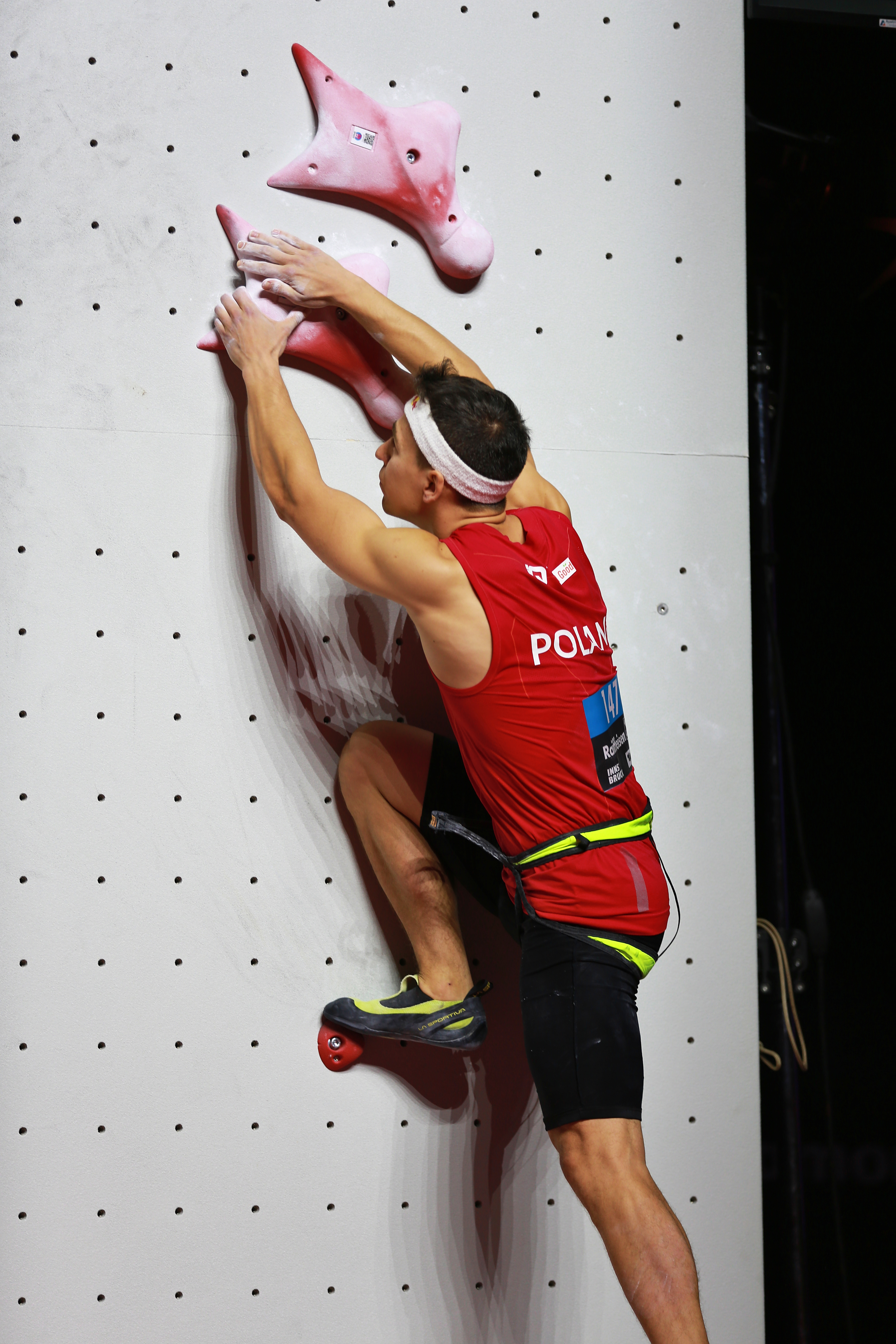 Climbing World Championships 2018 Speed Eighth-finals